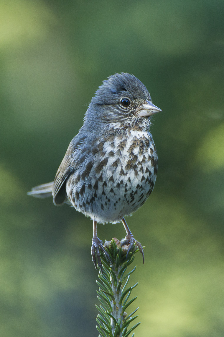 Fox Sparrow - Oregon - USa_S4E3719